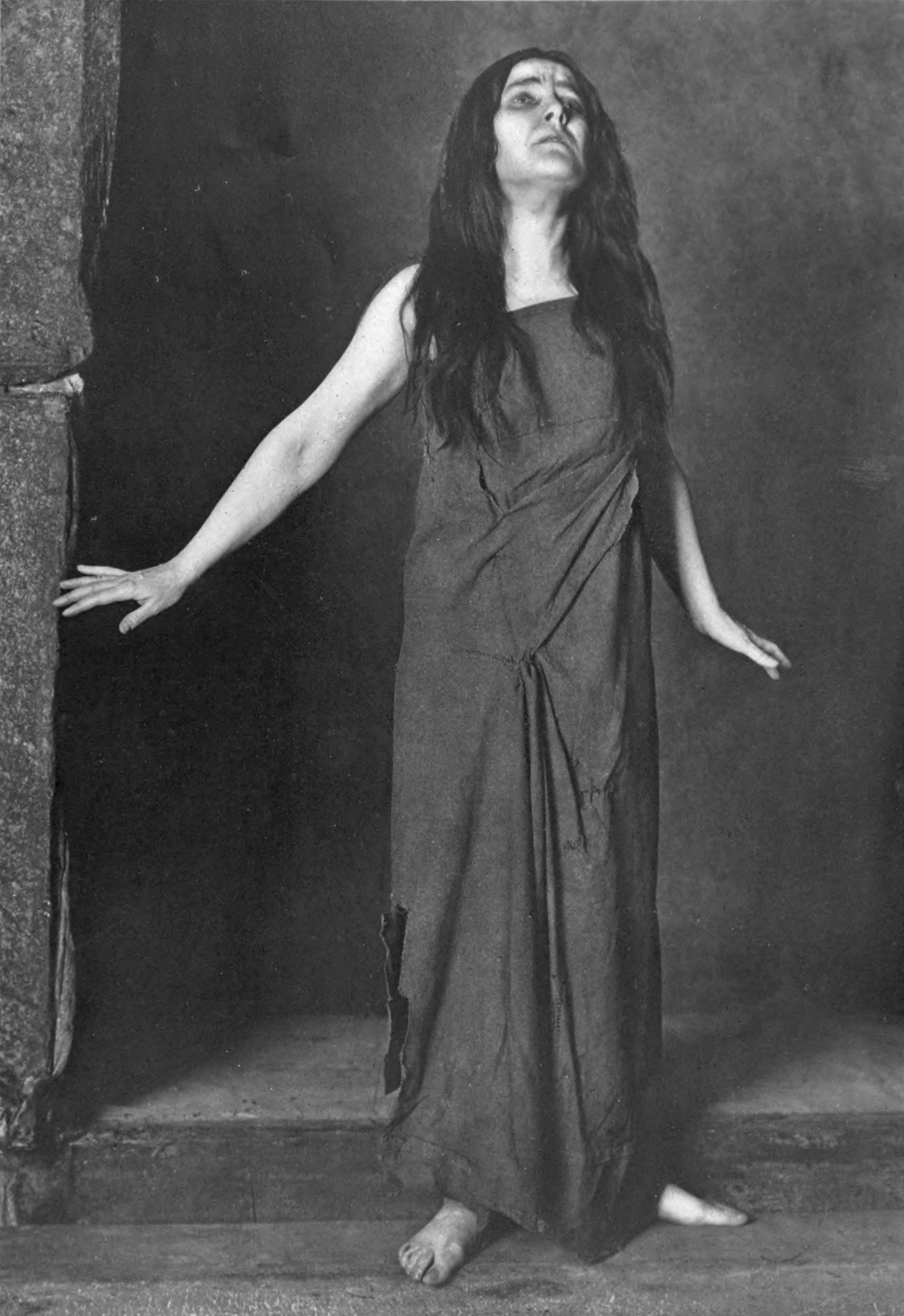 Suzanne Desprès as Electra